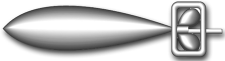 US Navy Torpedoman's Mate (TM). A torpedo, head to the front.